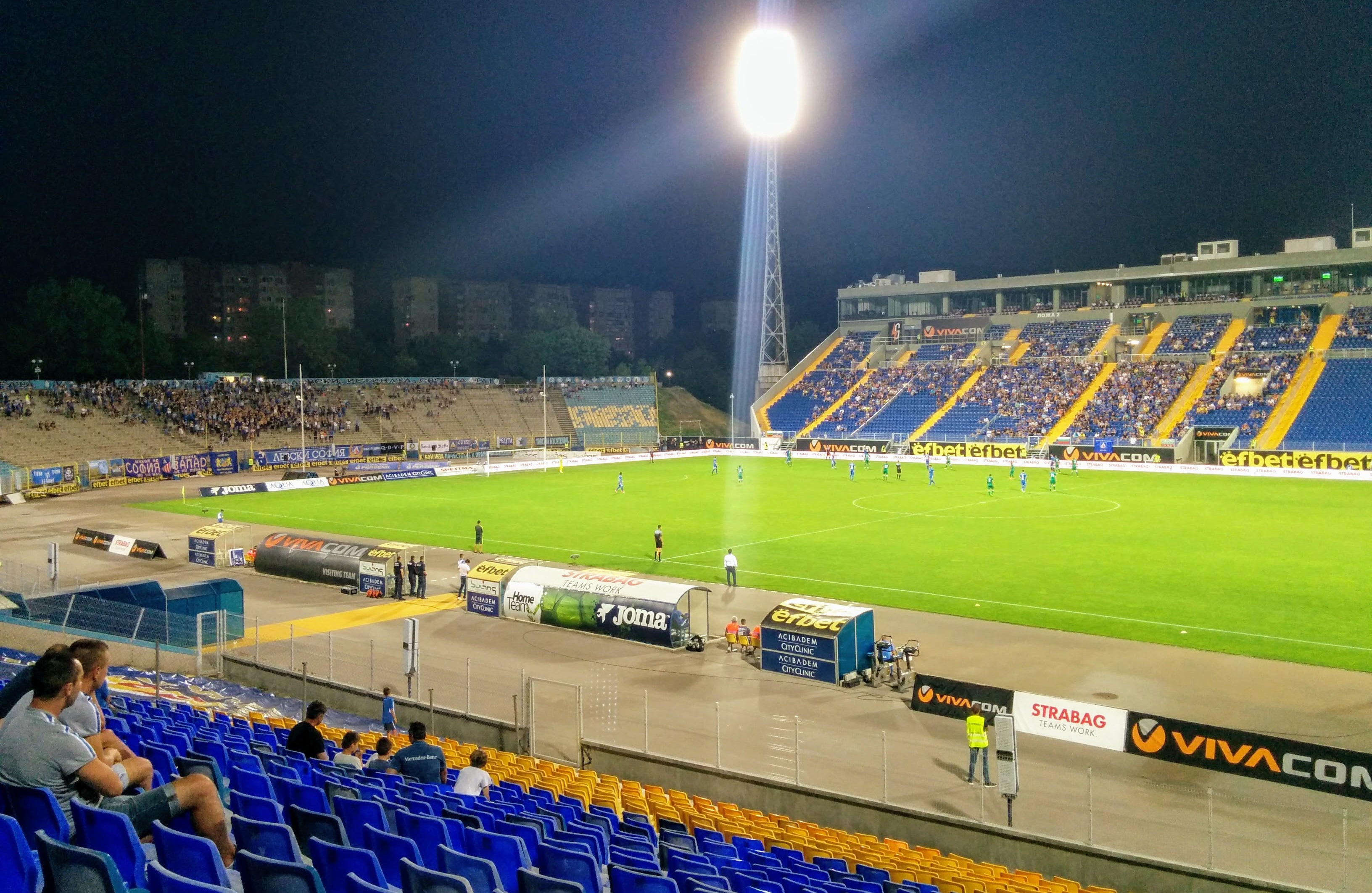 PFC Levski Sofia's Georgi Aspauhov Stadium in Sofia, Bulgaria